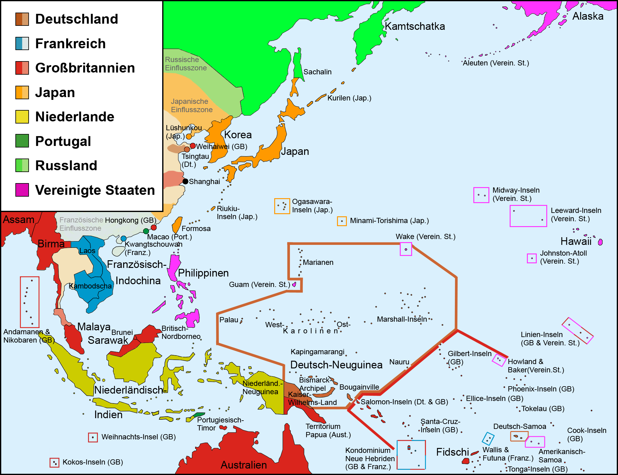 Colonies and zone of influence in East Asia and Oceania, circa 1914.